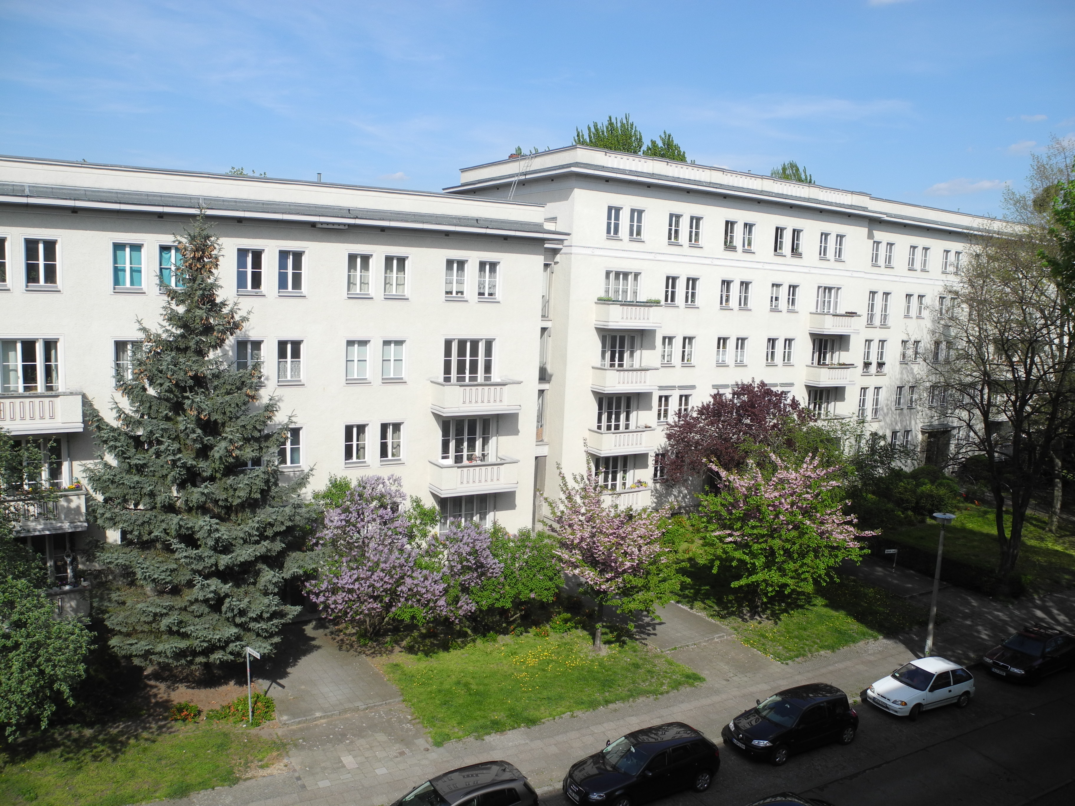 buildings from Hermann Henselmann, built 1950-1955 in Berlin, Prenzlauer Berg, Paul-Grasse-Straße